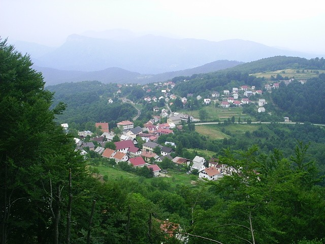 Town of Skrad, Croatia